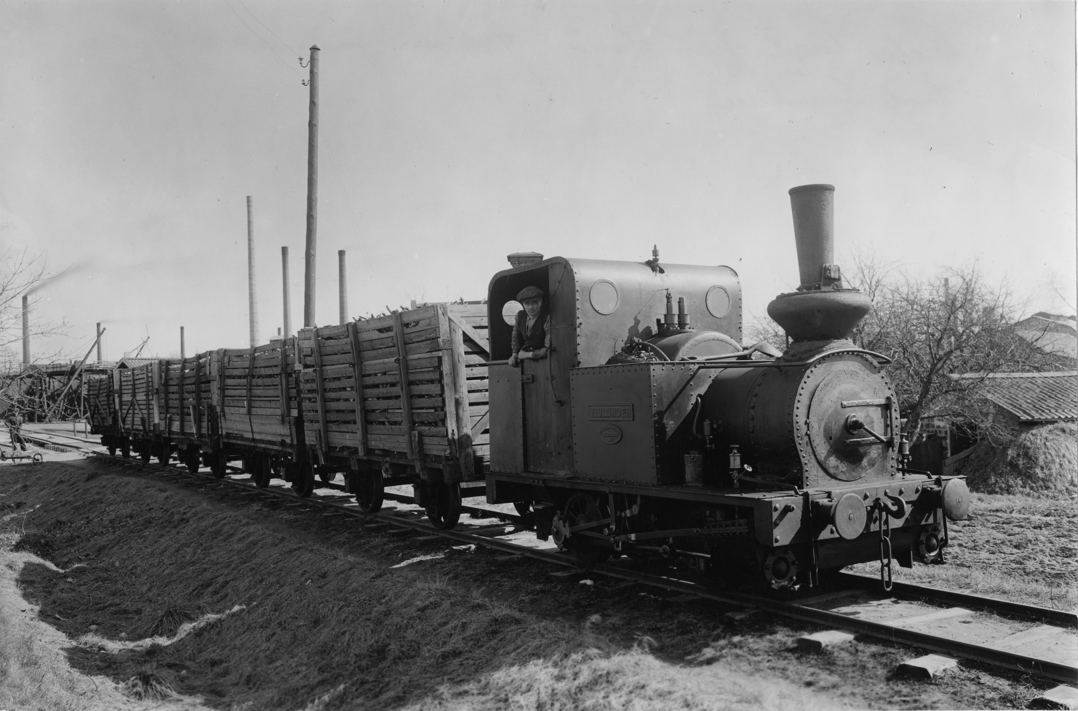 Lisjöbanan (The railway Lisjö - Surahammar), last train to Surahammar, Sweden in 1926. The picture is taken at the end station in Surahammar, close to the canal lock of Strömsholms kanal.